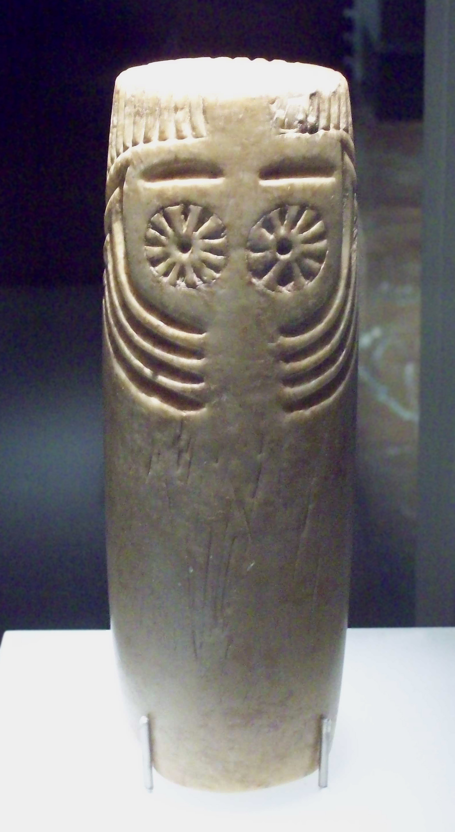 An eyed idol from the Copper Age. Schematic artwork. It has a cylindrical shape, slightly enlarged at the center, and it shows a perimetric engraving decoration. There are representations of radial-schematic eyes, eyebrows, hair and a possible facial tatoo.